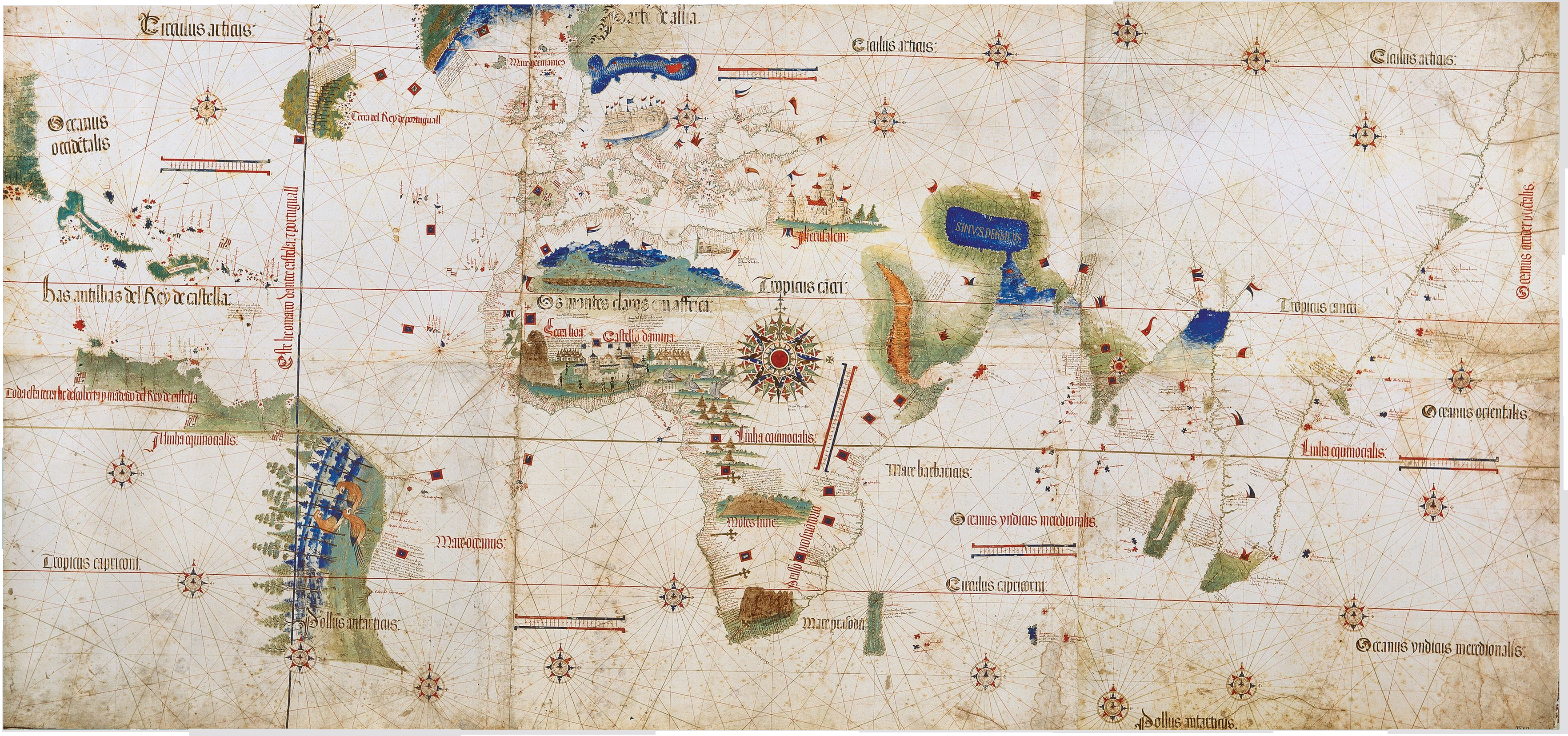 The most important manuscript map surviving from the early Age of Discovery, the Cantino World Map is named for Alberto Cantino, an Italian diplomatic agent in Lisbon who obtained it in 1502 for the Duke of Ferrara. It was covertly copied without authorization. It incorporates extensive new geographical information based on four series of voyages: Columbus to the Caribbean, Pedro Álvarez Cabral to Brazil, Vasco de Gama followed by Cabral to eastern Africa and India, and the brothers Corte-Real to Greenland and Newfoundland. Except for Columbus, all had sailed under the Portuguese flag.